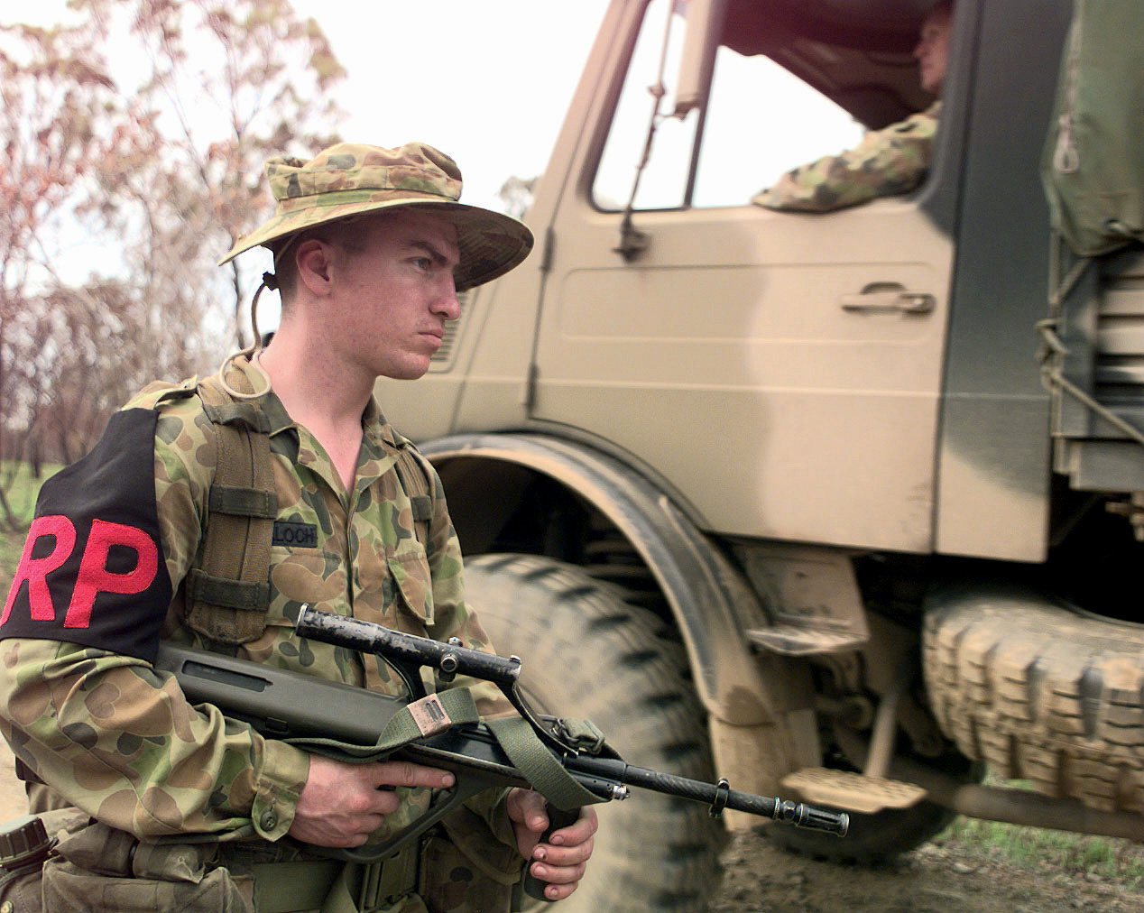 Private Daniel McCulloch of the 9th Royal Queensland Regiment, holding an F88 5.56mm rifle, allows a vehicle to pass through his security check point. U.S. and Australian Forces are joining together to take part in exercise Crocodile '99 in the Shoalwater Bay Training Area, Queensland, Australia.